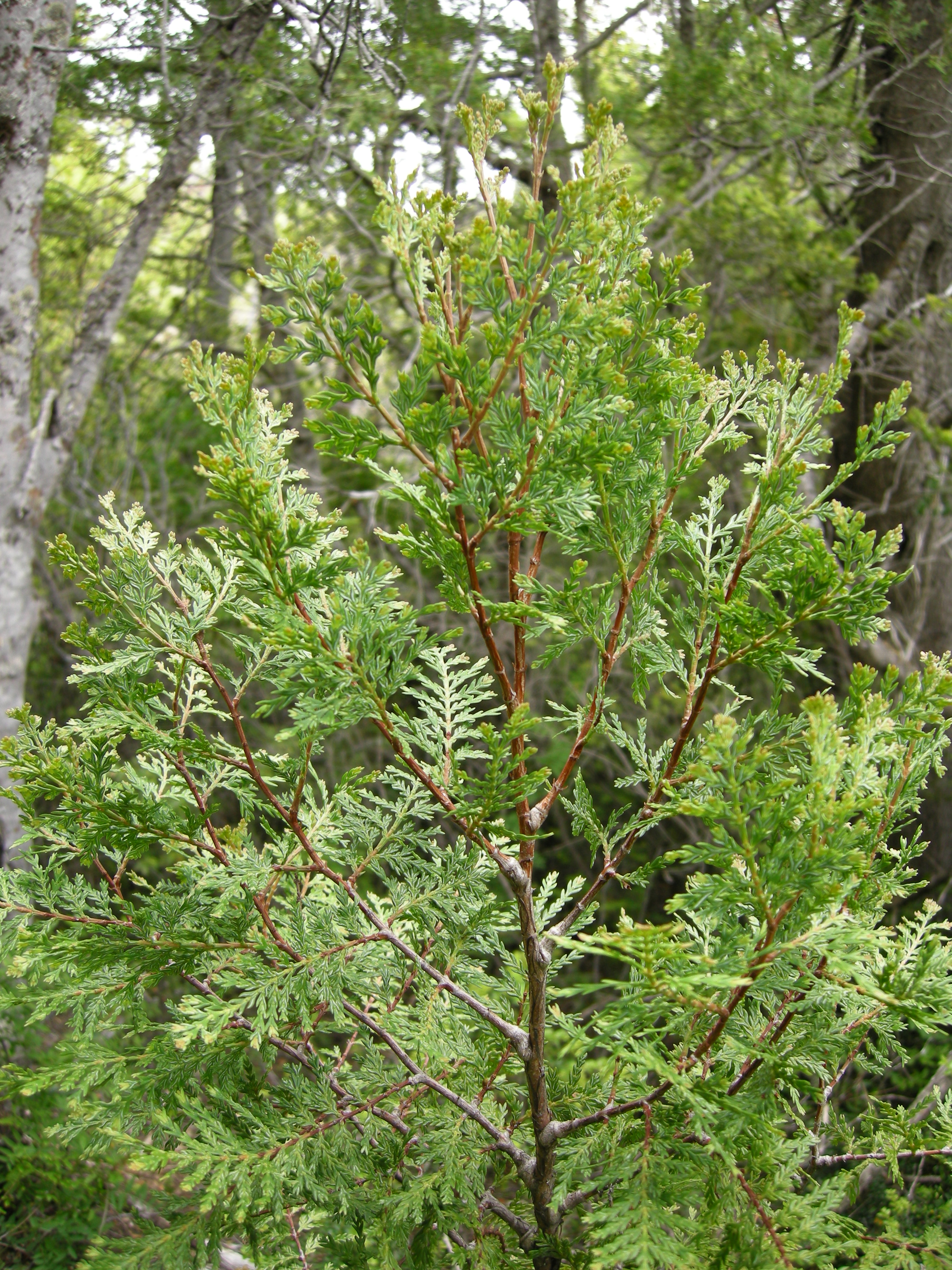 Branch of Austrocedrus chilensis. Picture taken in Los Alerces National Park (Chubut province, Argentina).